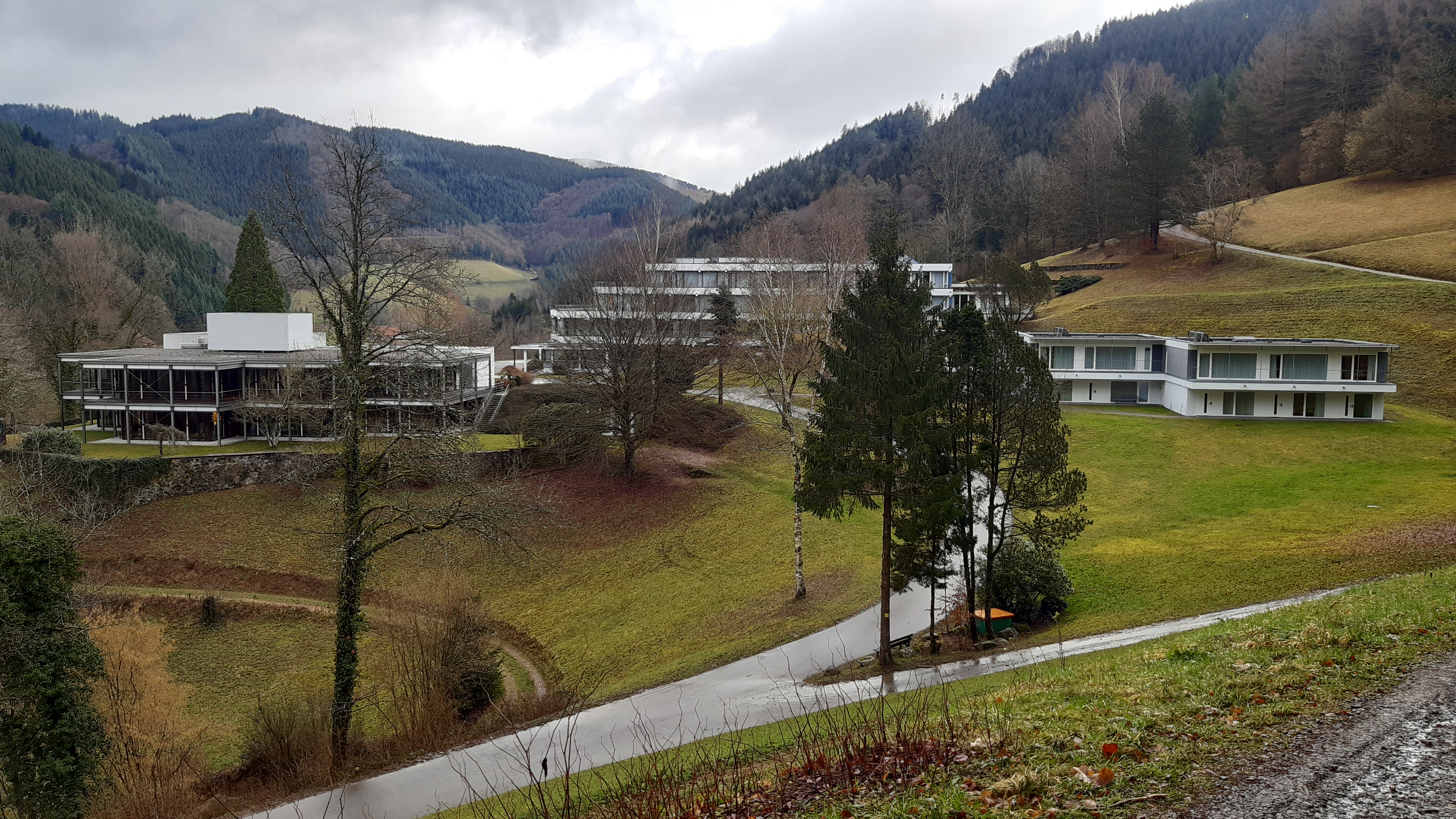 Mathematisches Forschungsinstitut Oberwolfach (=Mathematical research institute Oberwolfach). Oberwolfach, Schwarzwald region, Germany, Europe